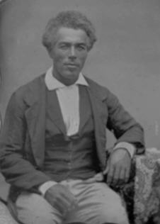 Horace King (September 8, 1807 – May 28, 1885)